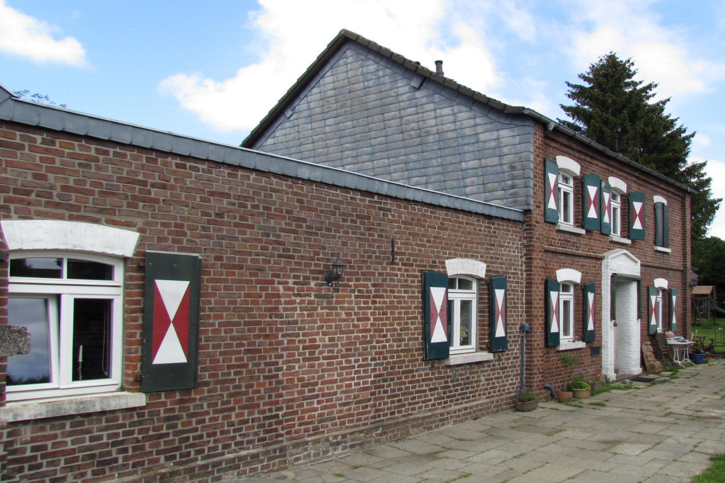 This is a photograph of an architectural monument.